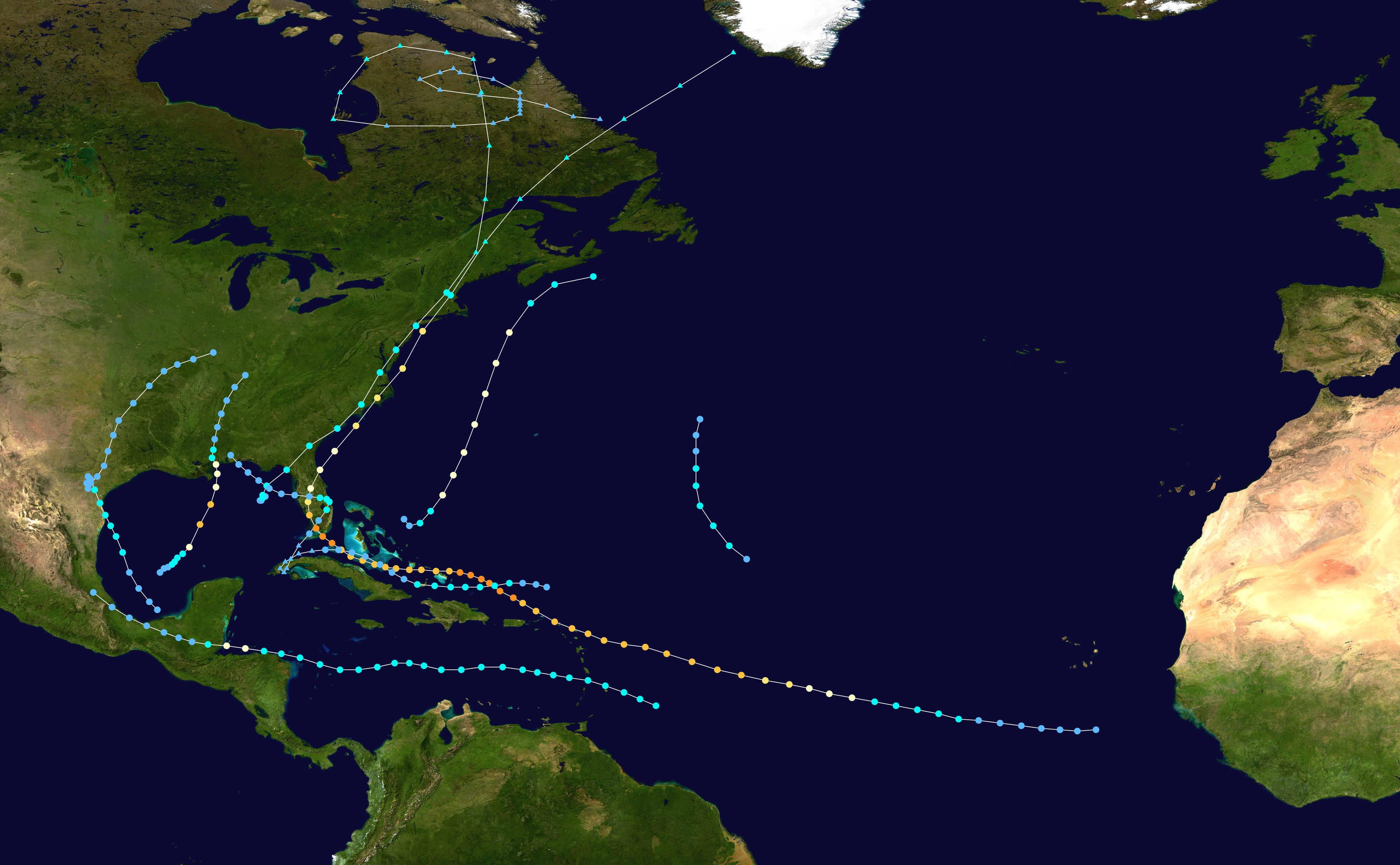 This map shows the tracks of all tropical cyclones in the 1960 Atlantic hurricane season. The points show the location of each storm at 6-hour intervals. The colour represents the storm's maximum sustained wind speeds as classified in the Saffir-Simpson Hurricane Scale (see below), and the shape of the data points represent the type of the storm. Saffir–Simpson hurricane wind scale Tropical depression≤38 mph≤62 km/h Category 3111–129 mph178–208 km/h Tropical storm39–73 mph63–118 km/h Category 4130–156 mph209–251 km/h Category 174–95 mph119–153 km/h Category 5≥157 mph≥252 km/h Category 296–110 mph154–177 km/h Unknown Storm typeTropical cycloneSubtropical cycloneExtratropical cyclone / Remnant low / Tropical disturbance